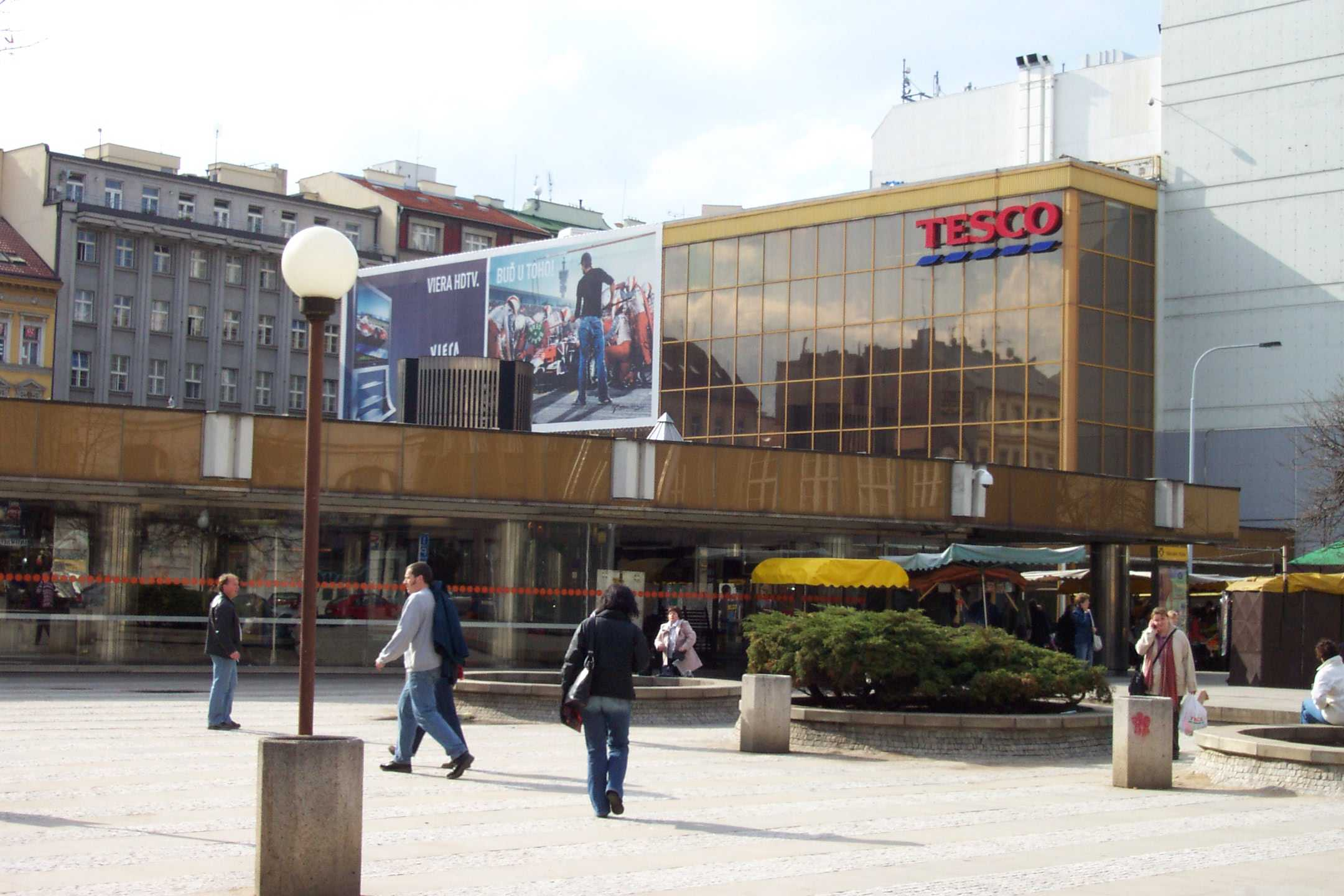 A view of Národní Třída metro station vestibul in Prague, Nové město (New Town) area. In the further part of the picture the Tesco shopping mall can be seen